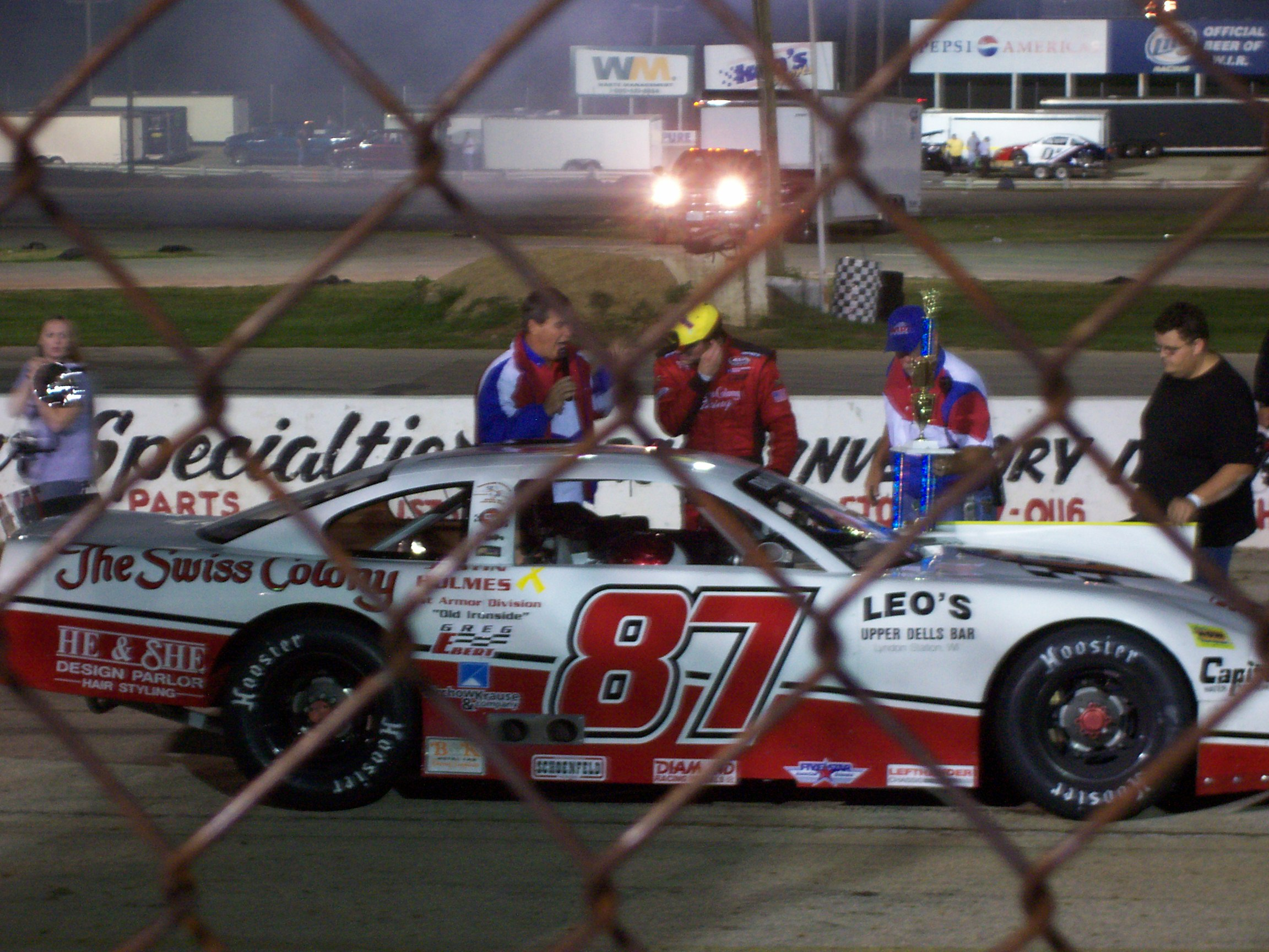 Nathan Haseleu's late model stock car in Victory Lane at Wisconsin International Raceway after winning the Blue race of the Wisconsin State Championship. The event was part of the Wisconsin Challenge Series.